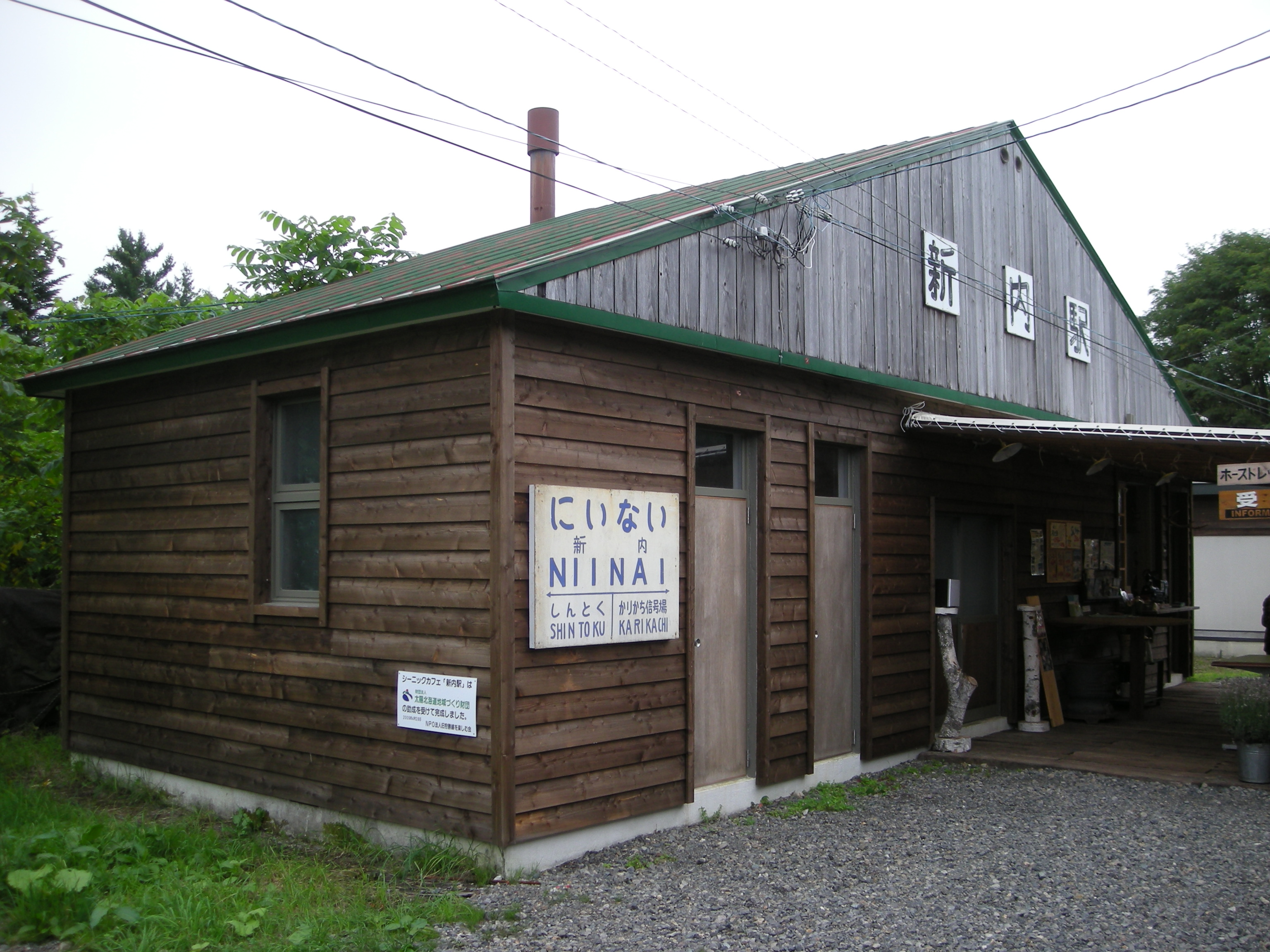 Niinai Stn.,Hokkaido,Japan